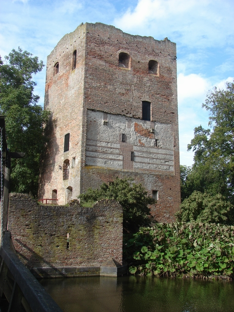 Castle Duurstede